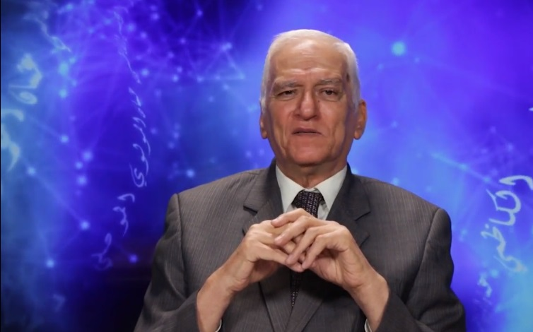 Imad Abd al-Salam Raʼuf - during the performance of a TV program on Alrafidain TV - Sep 11, 2018